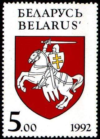 Stamp of Belarus